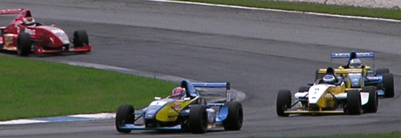 Formula Renault Brasil, Rd.2 Curitiba Formula Renault Brasil, Rd.2 Curitiba: from left to rigit; #07 Felipe Ferreira(col:red, Cesário Fórmula), :#1 Vinicius Quadros(col:yellow-blue, Bassani Racing), #9 Bruno Barbosa(col:yellow, Prop Car), #2 Rodolpho Santos(col:yellow-blue, Bassani Racing)